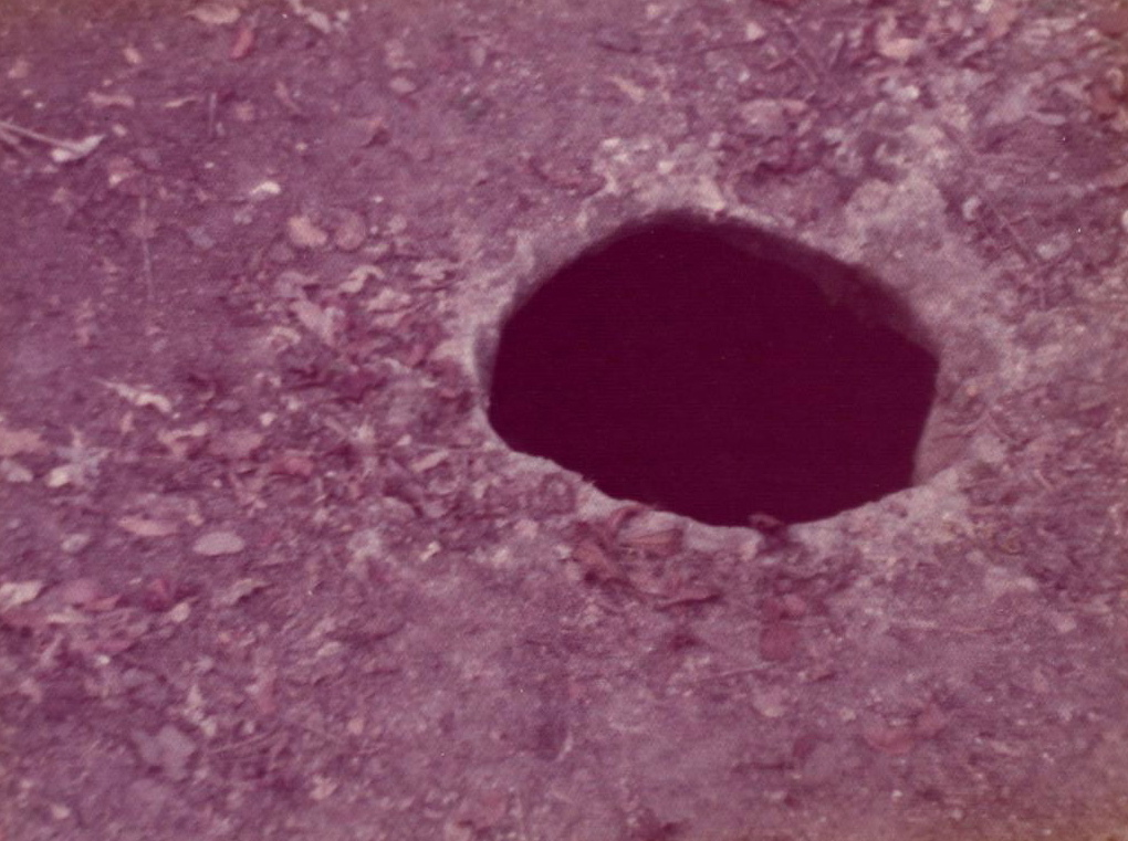 Xunantunich, Belize. Opening of "chultun", pre-Colombian Maya storage chamber.